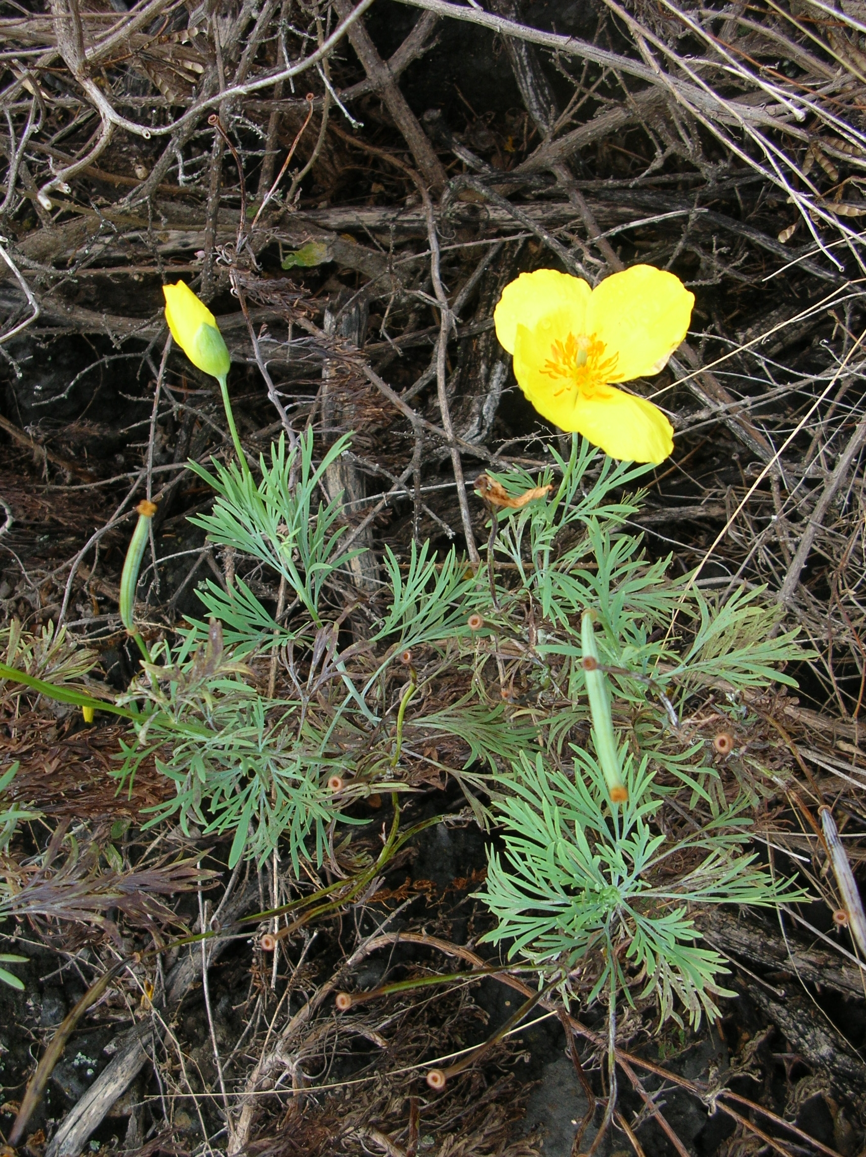 Hunnemannia fumariifolia (flowers). Location: Maui, Kanaio